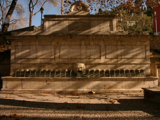 19th century «fountain of the twenty-five pipes» in Xàtiva